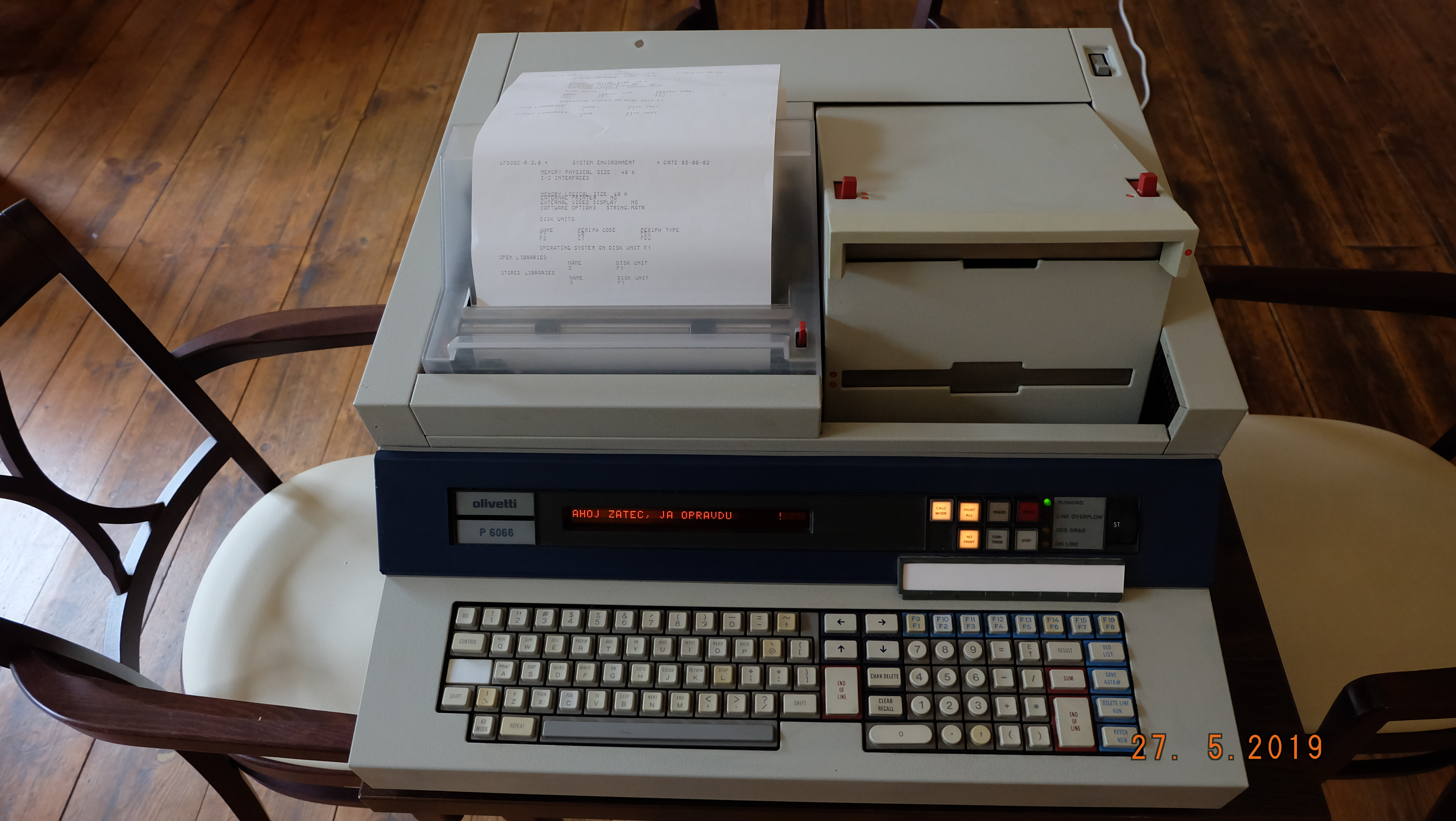 Fully functional and beautiful condition. Location, Retro Computer museum, Zatec, Czech Republic